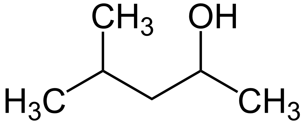 A structural drawing of a hexanol isomer.